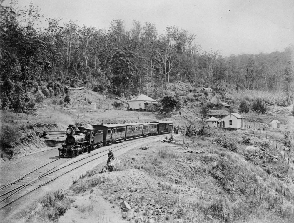 Locomotive and carriages near Spring Bluff railway station, 1891 Spring Bluff Railway Station today is a heritage listed site located on the main railway line between Ipswich and Toowoomba. Its significance stems from 130 years of railway history and the attraction of its landscaped gardens.